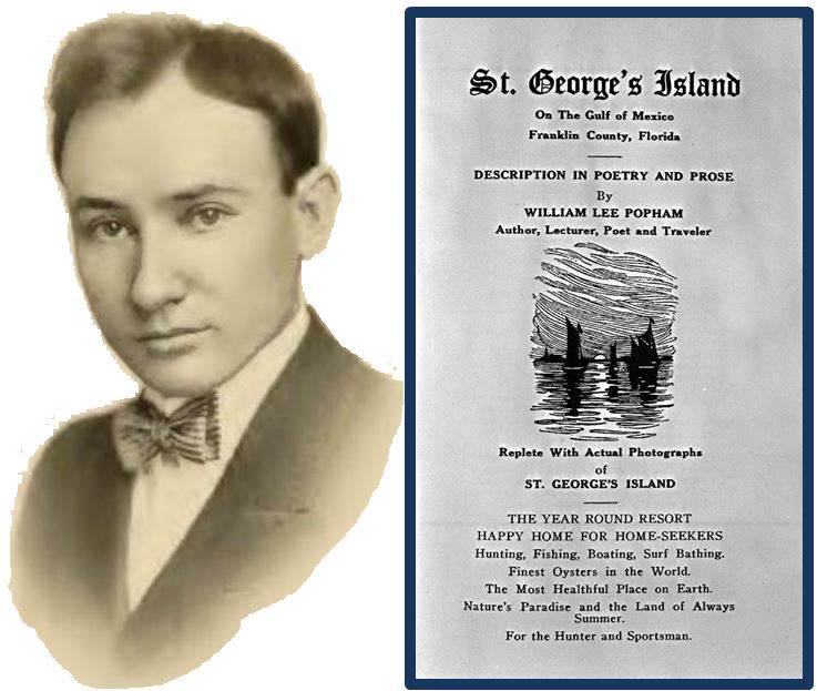 William Lee Popham is from the Library of Congress copy of Silver Gems in Seas of Gold (1910). The real estate brochure is from the State of Florida public archive, Florida Memory.